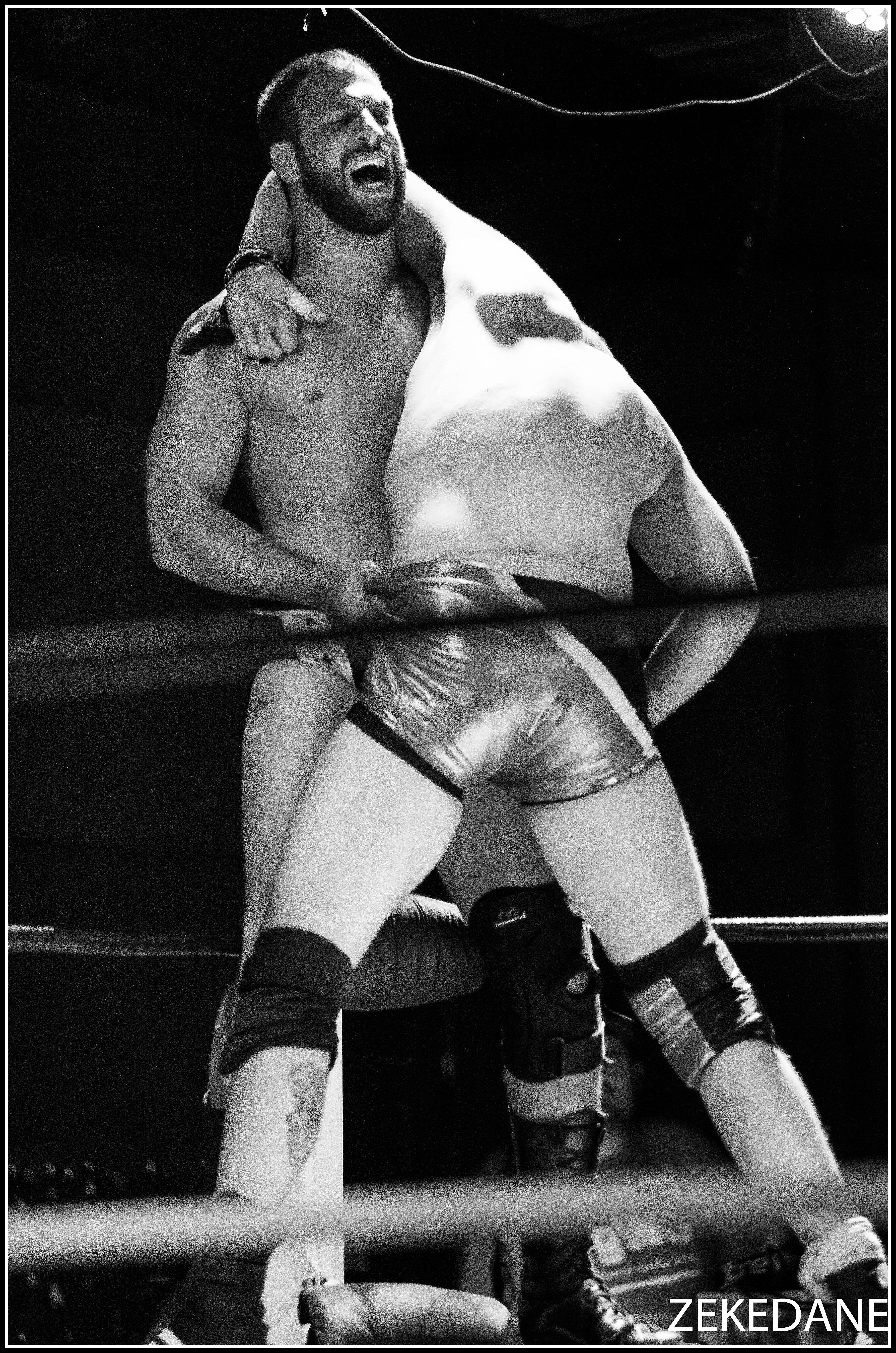 Drew Gulak in an August 2016 Beyond Wrestling event in Providene RI against Dave Cole